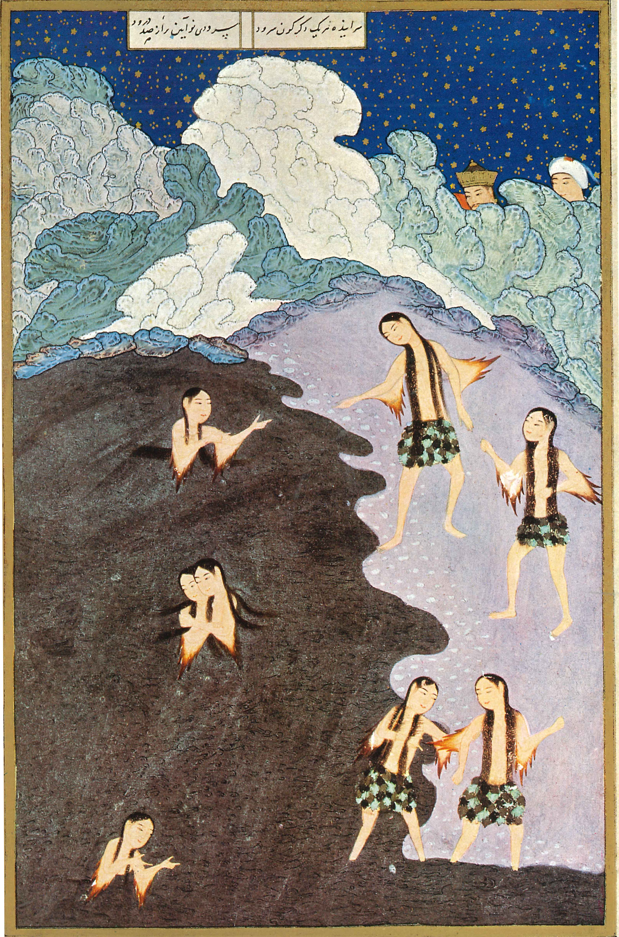 A page of Iskander Anthology shows Iskander watches the mermaids in the bath. Painted in shiraz around 1410 AD. Gulbenkian Foundation, Lisbon.